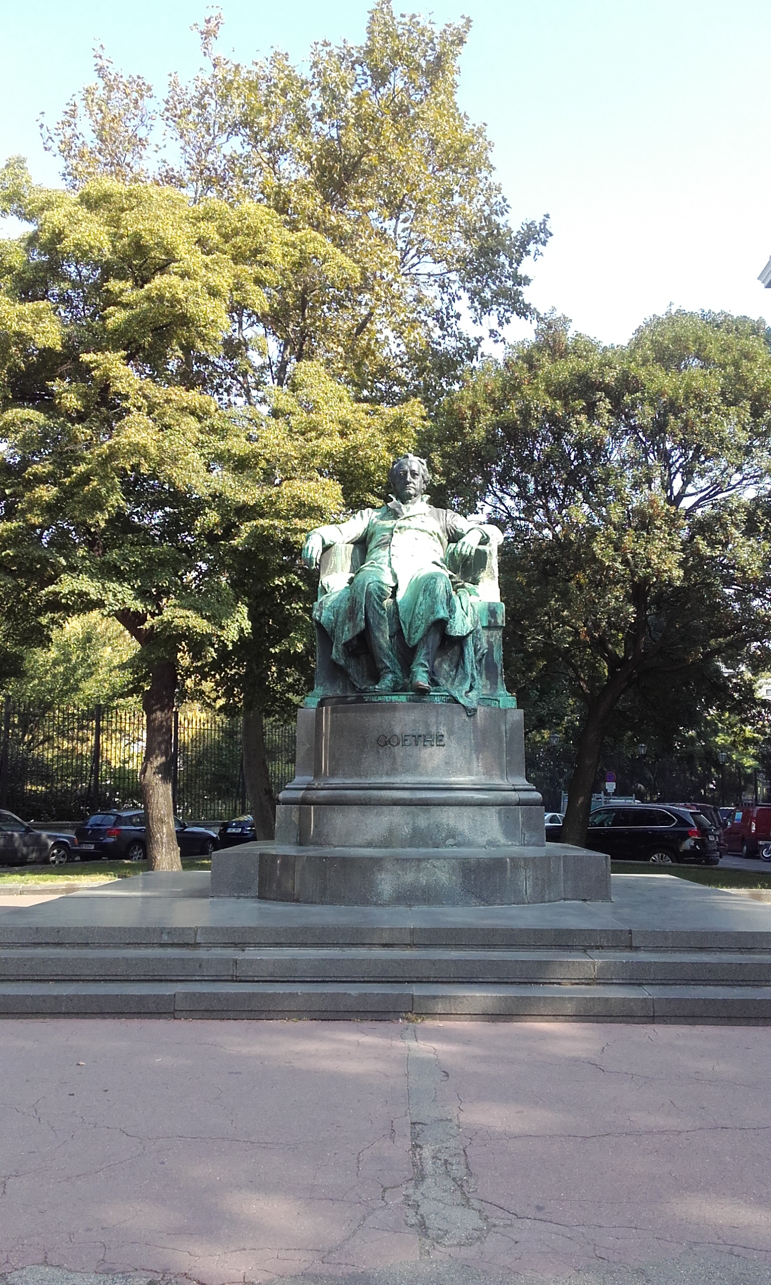 Located in the center of the city of Vienna.